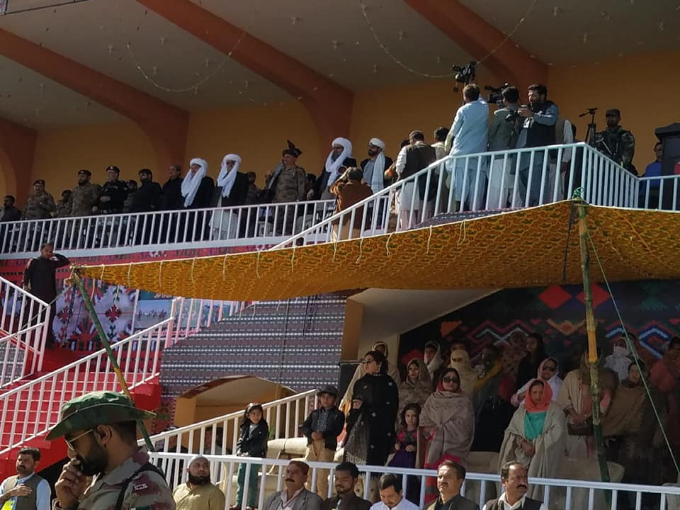 Sibi Mela 2019